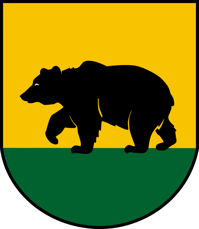 Coat of Arms of Rawicz